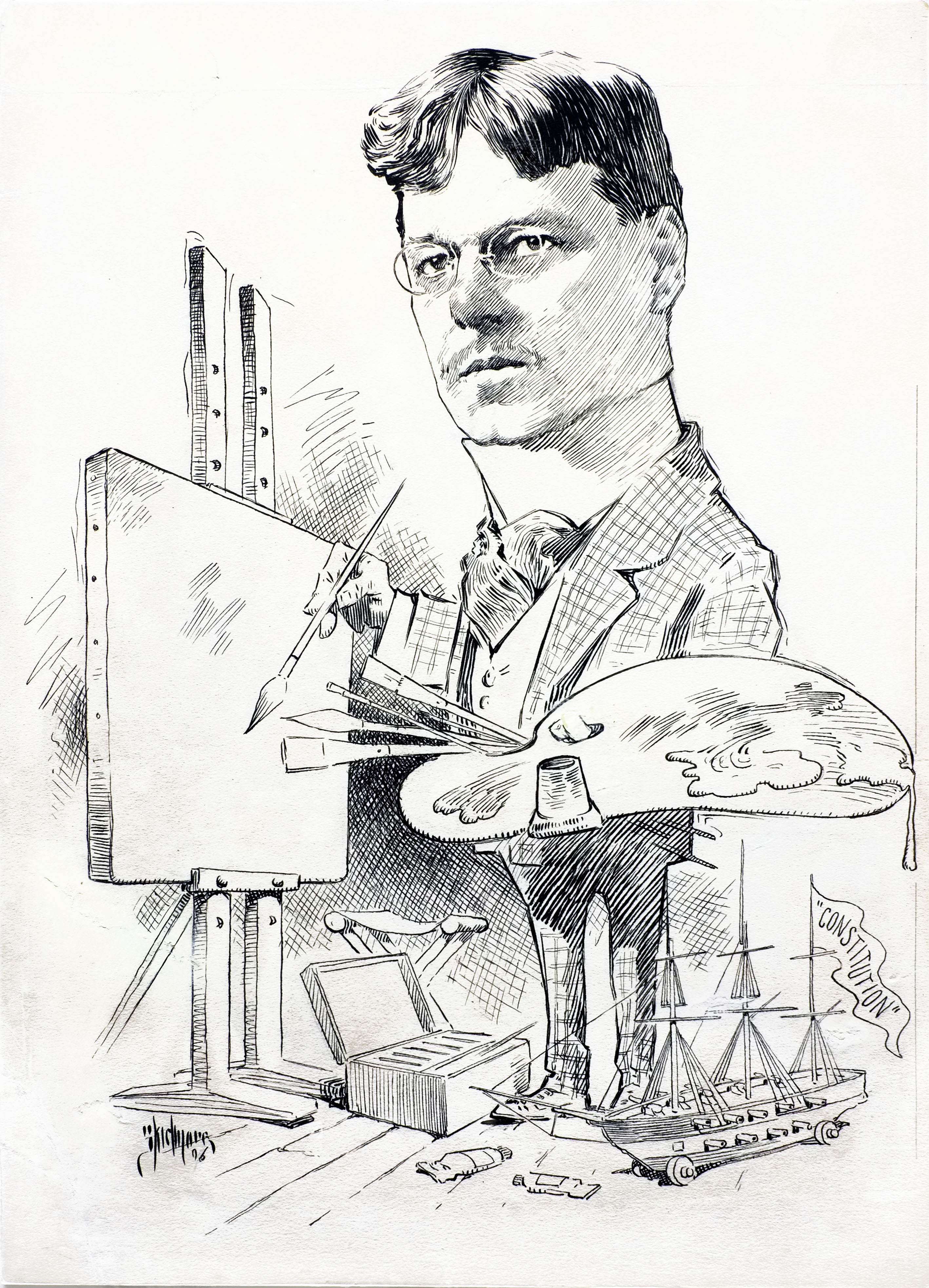 Caricature of Eric pape by T.D. Skidmore, used in Pearson's Magazine, 1906, as an advertisement for the serial publication of H.G. Wells "War in the Air", which Pape illustrated